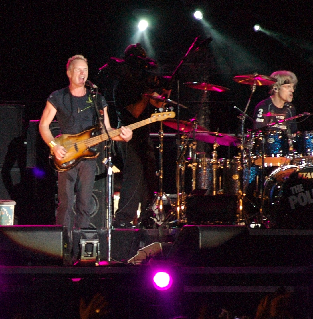 The Police (Sting, Copeland) @ Buenos Aires 2007